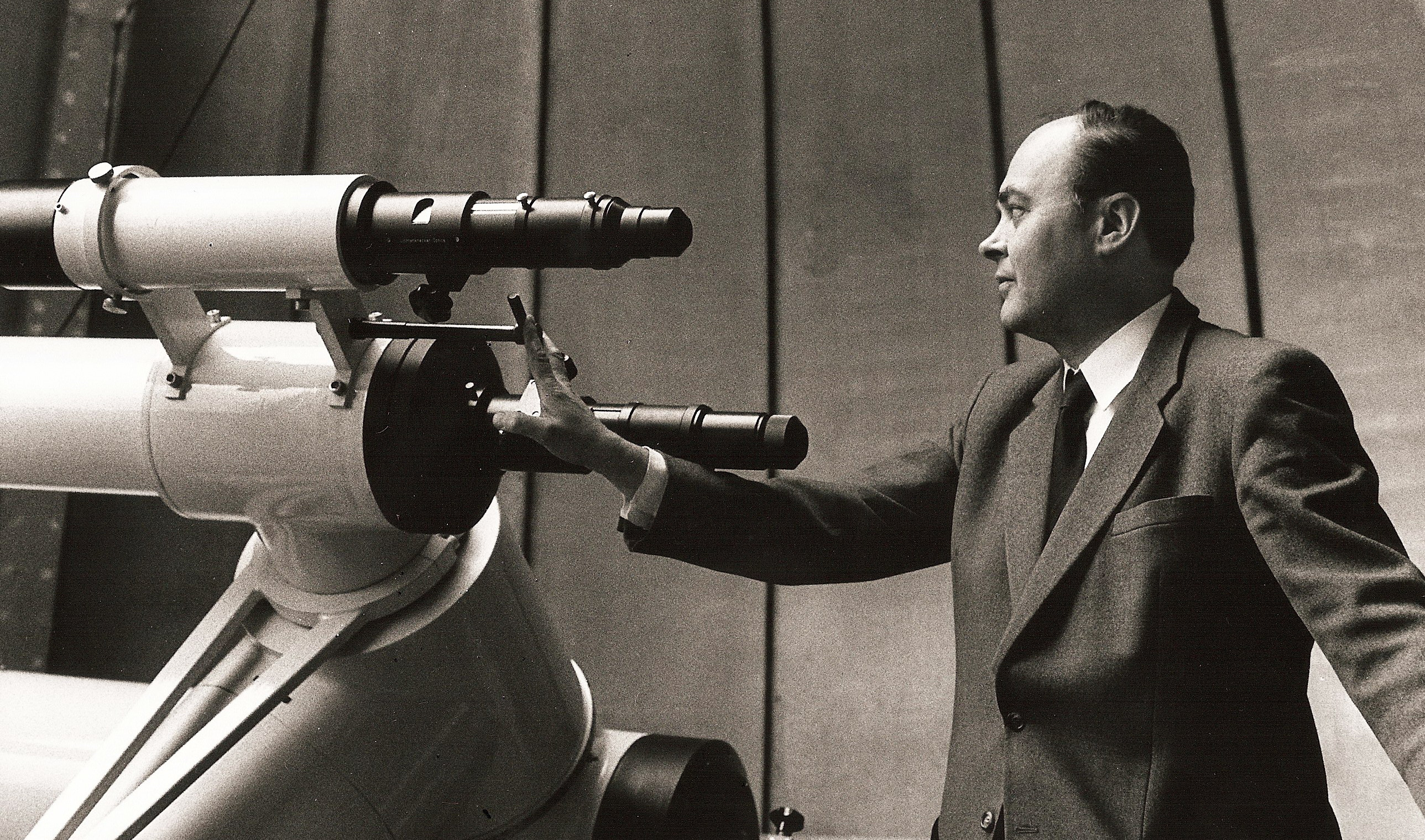 Hermann Mucke in the Urania-Observatory, Vienna (Austria)